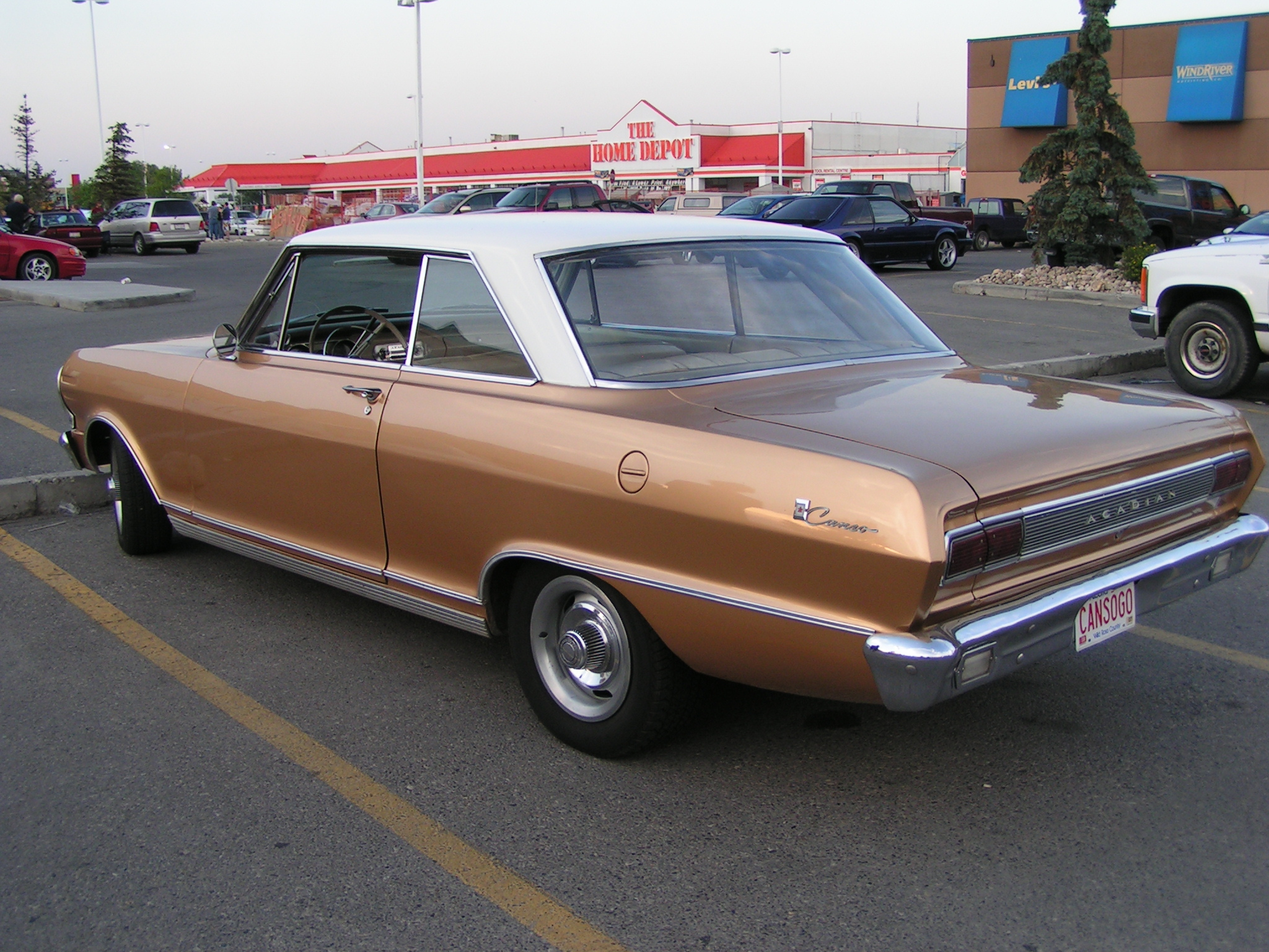 A Canadian market Acadian Canso which is a version of the Chevrolet Nova.